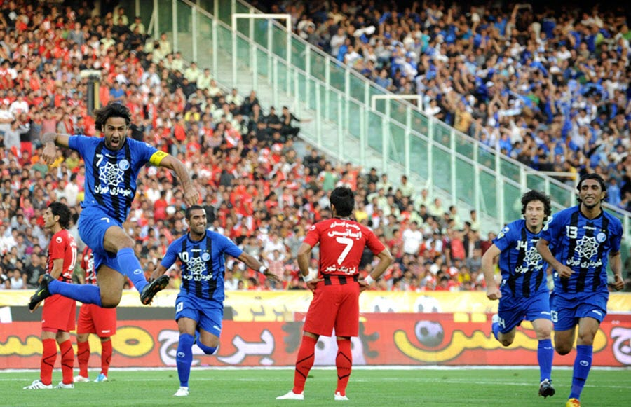 فرهاد مجیدی - دربی شهرآورد